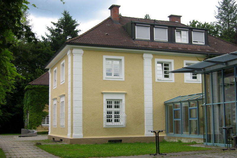 Villa Junkers in Gauting, Starnberg district, Bavaria, Germany.